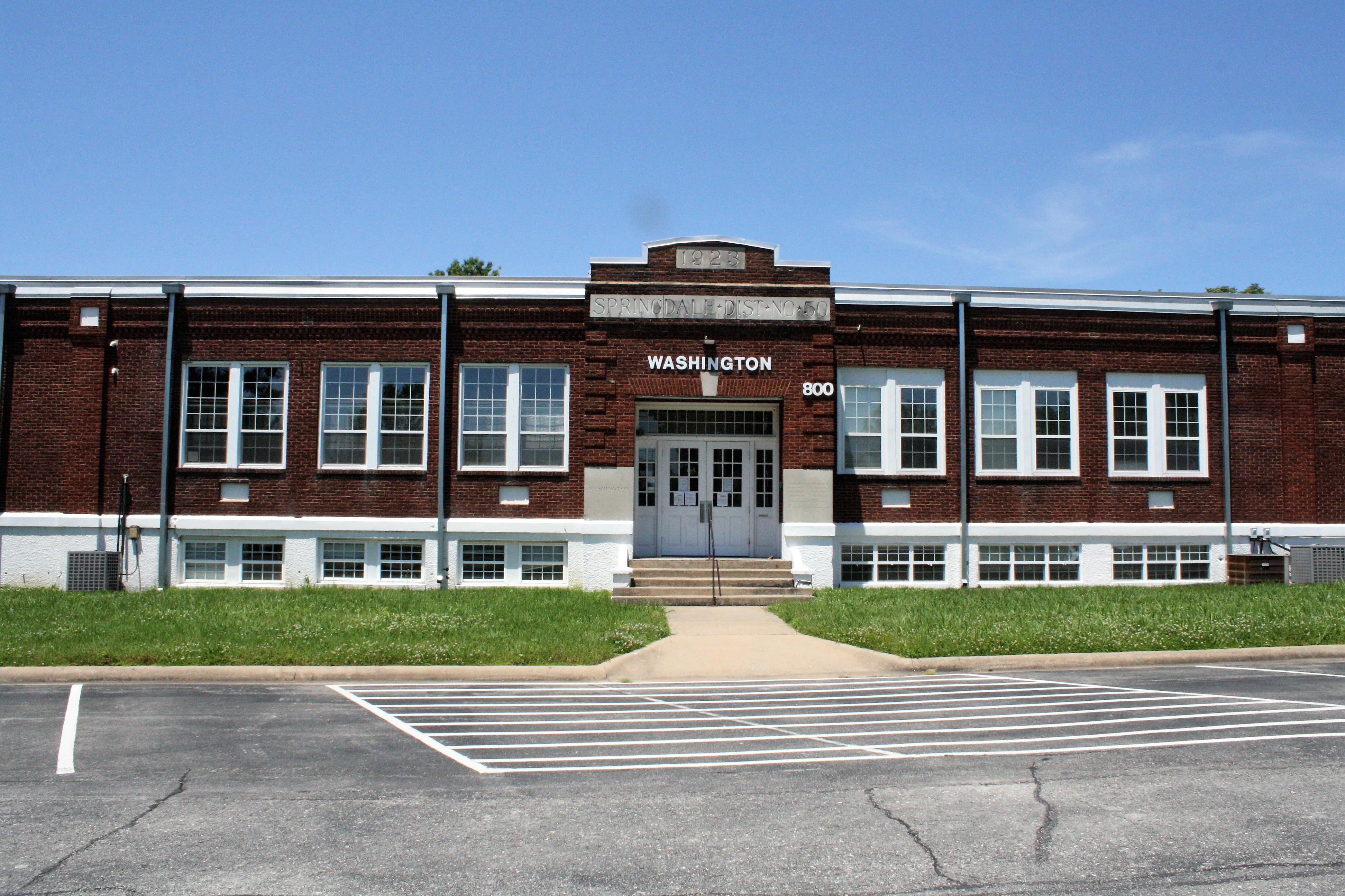 Washington School on Emma Avenue in downtown Springdale, Arkansas